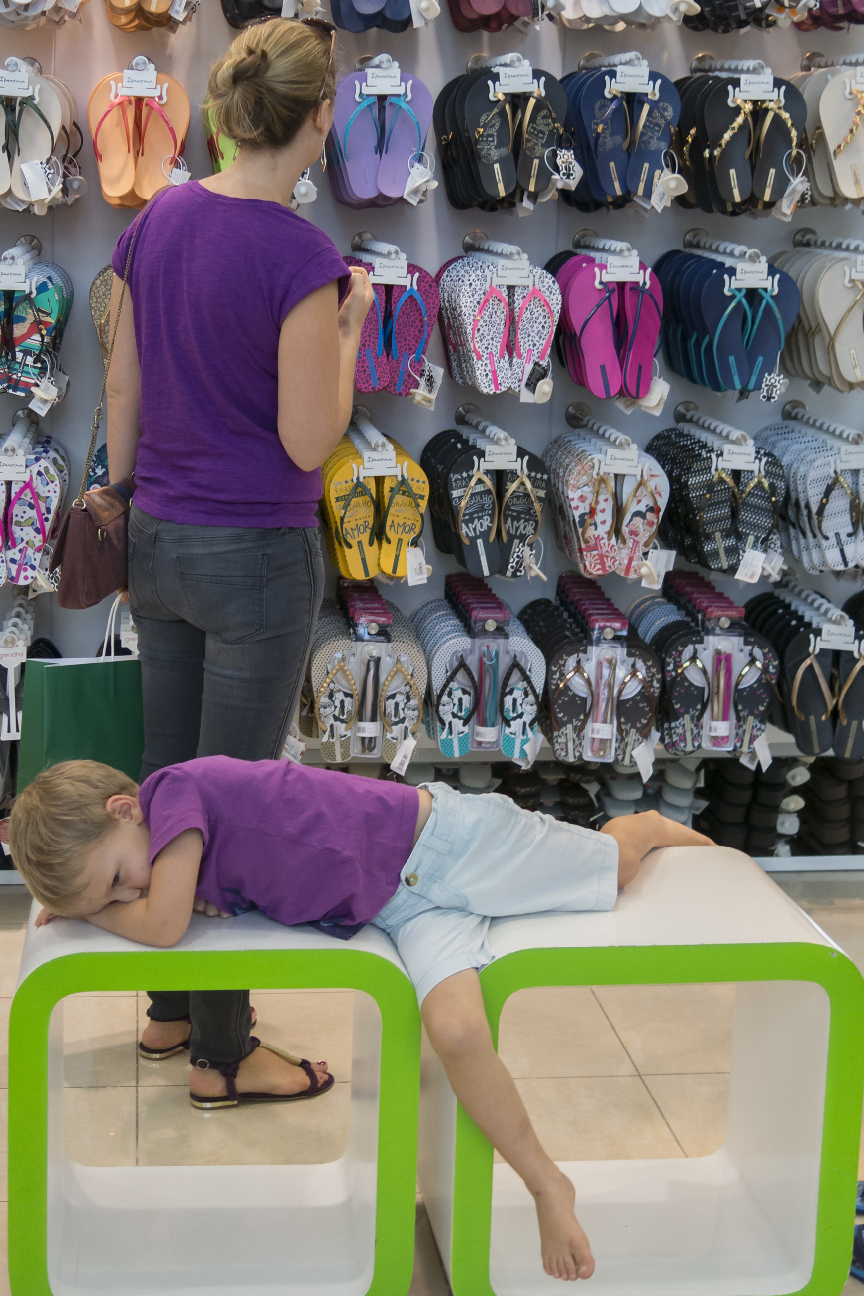 The Dubai Mall (Arabic: دبي مول) is a shopping mall in Dubai and the largest mall in the world by total area. It is the nineteenth largest shopping mall in the world by gross leasable area. Located in Dubai, United Arab Emirates, it is part of the 20-billion-dollar Downtown complex, and includes 1,200 shops. In 2011 it was the most visited building on the planet, attracting over 54 million visitors. Access to the mall is provided via Doha Street, rebuilt as a double-decker road in April 2009.